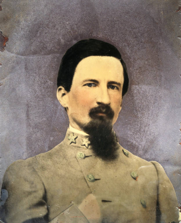 George Edward Tayloe, Virginia Military Institute